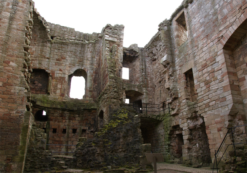 Crichton Castle, Midlothian, Scotland - donjon seen from courtyard